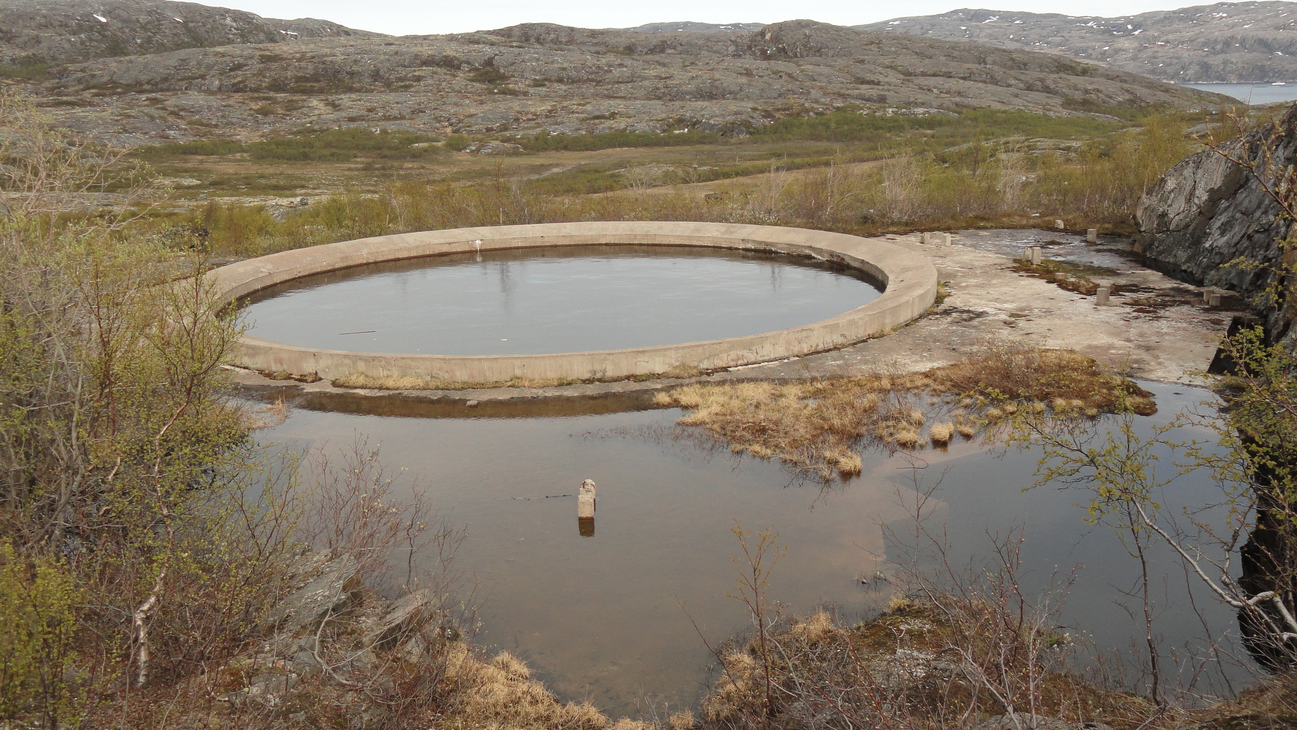 World War II German artillery position at Liinakhamari.